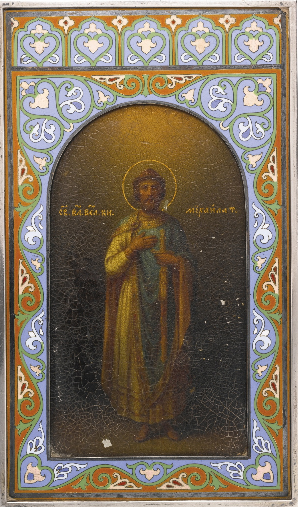 Grand Duke Mikhail Alexandrovich: A Russian Imperial Silver and Enamel Icon of St. Michael, Grachev Brothers, St. Petersburg, 1903 rectangular, the cover enamelled with scrolling ornament in champlevé, the arched aperture framing an icon of St. Michael standing with a sword, the reverse with a Cyrillic dedicatory inscription to "Our August Chief [from] the Fifth Life Guards Mounted Battery 1878 23 November 1903" followed by a list of senior officers, with suspension ring 6 5/8 x 3 7/8 in.; 16.8 x 9.8 cm